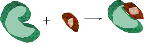 Arvind Ramanathan